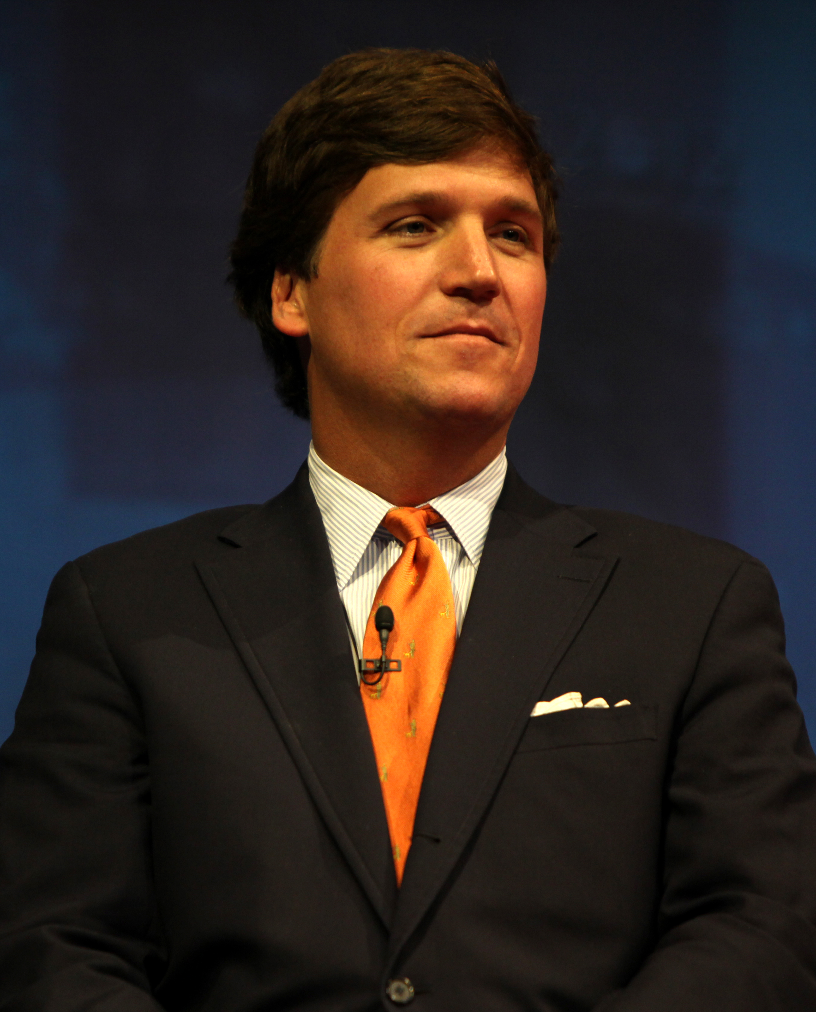 Tucker Carlson speaking at CPAC in Washington D.C. on February 11, 2012.